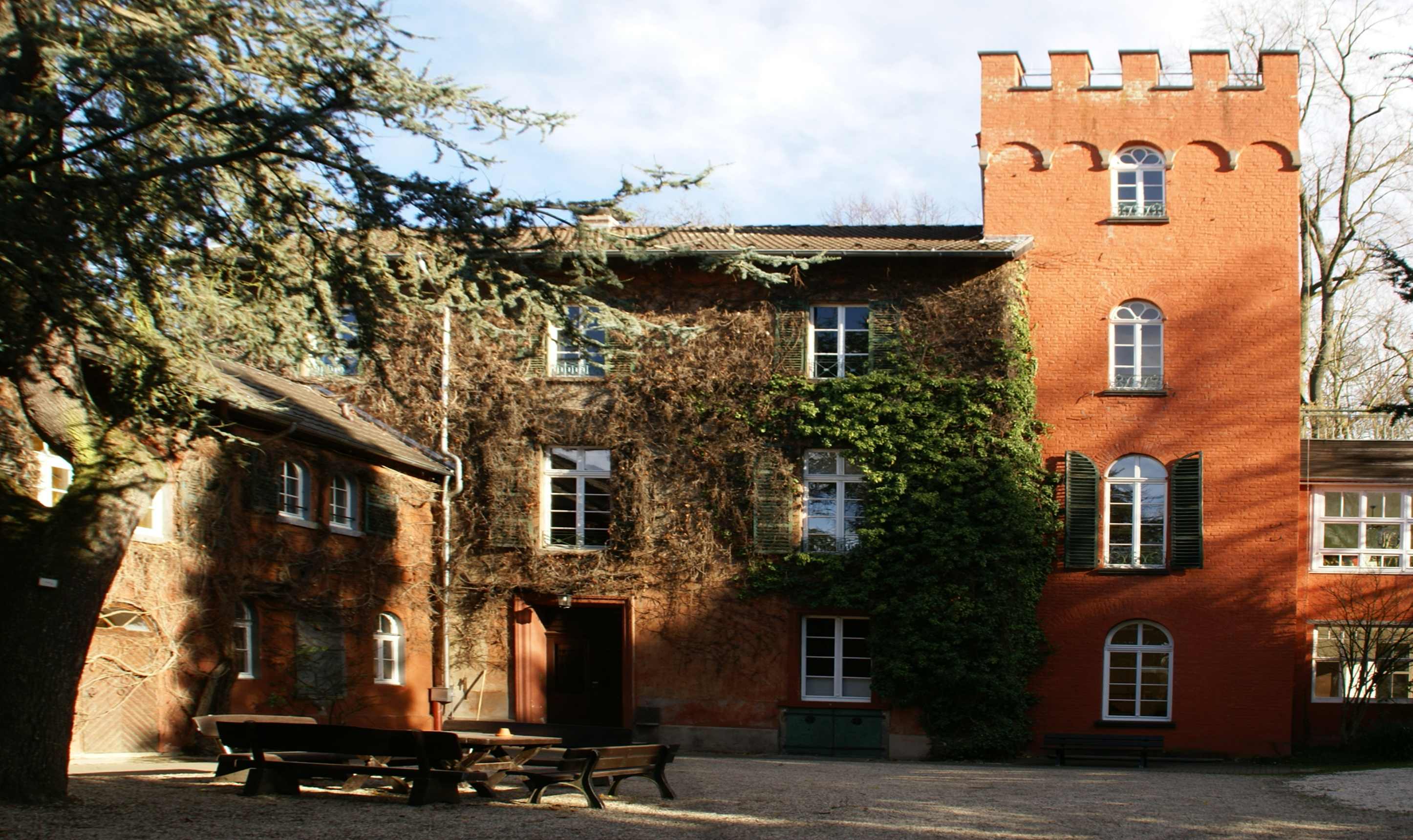 Partial view of the estate Malteserhof in Römlinghoven, Malteserstraße 52